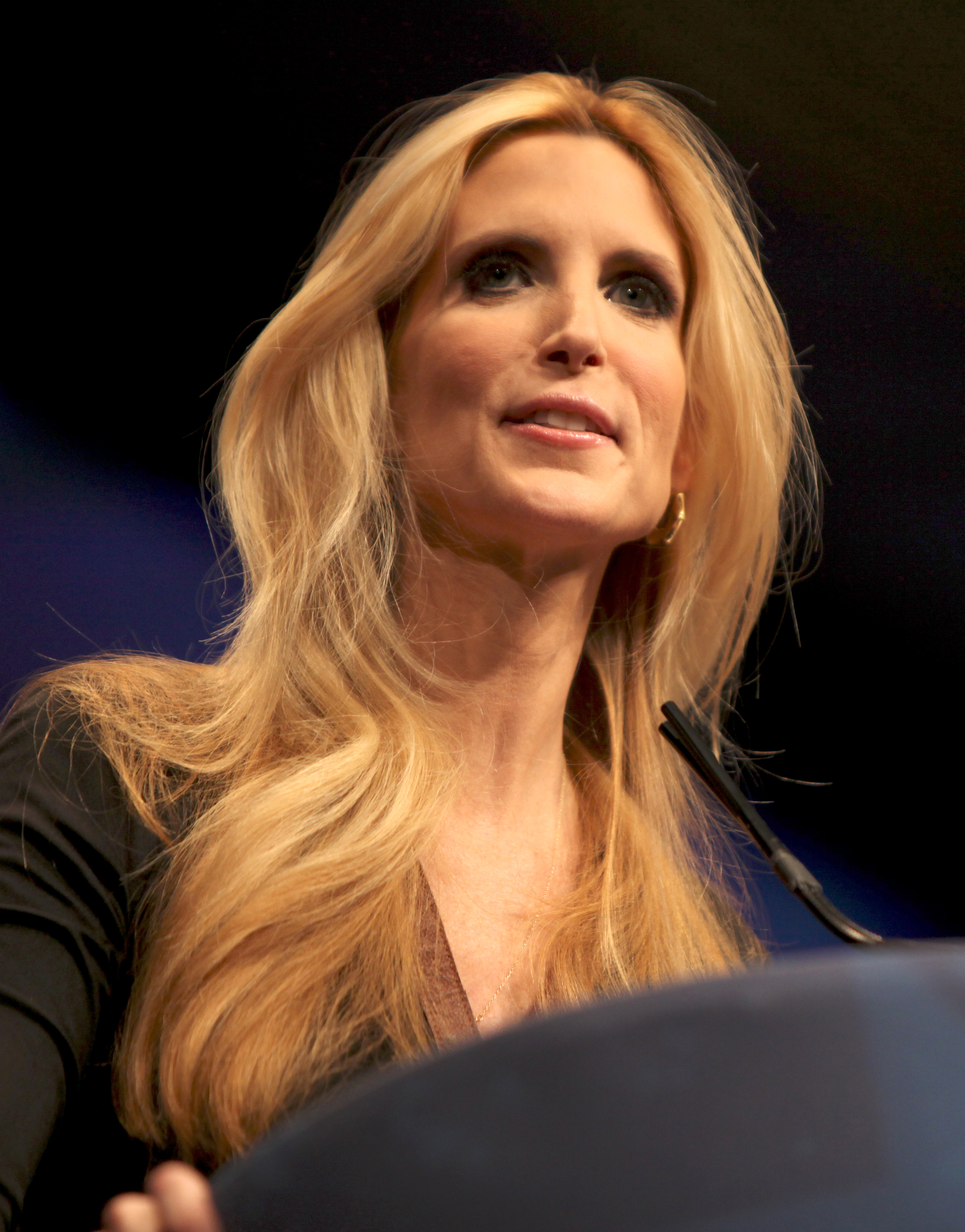 Ann Coulter speaking at CPAC in Washington D.C. on February 10, 2012.